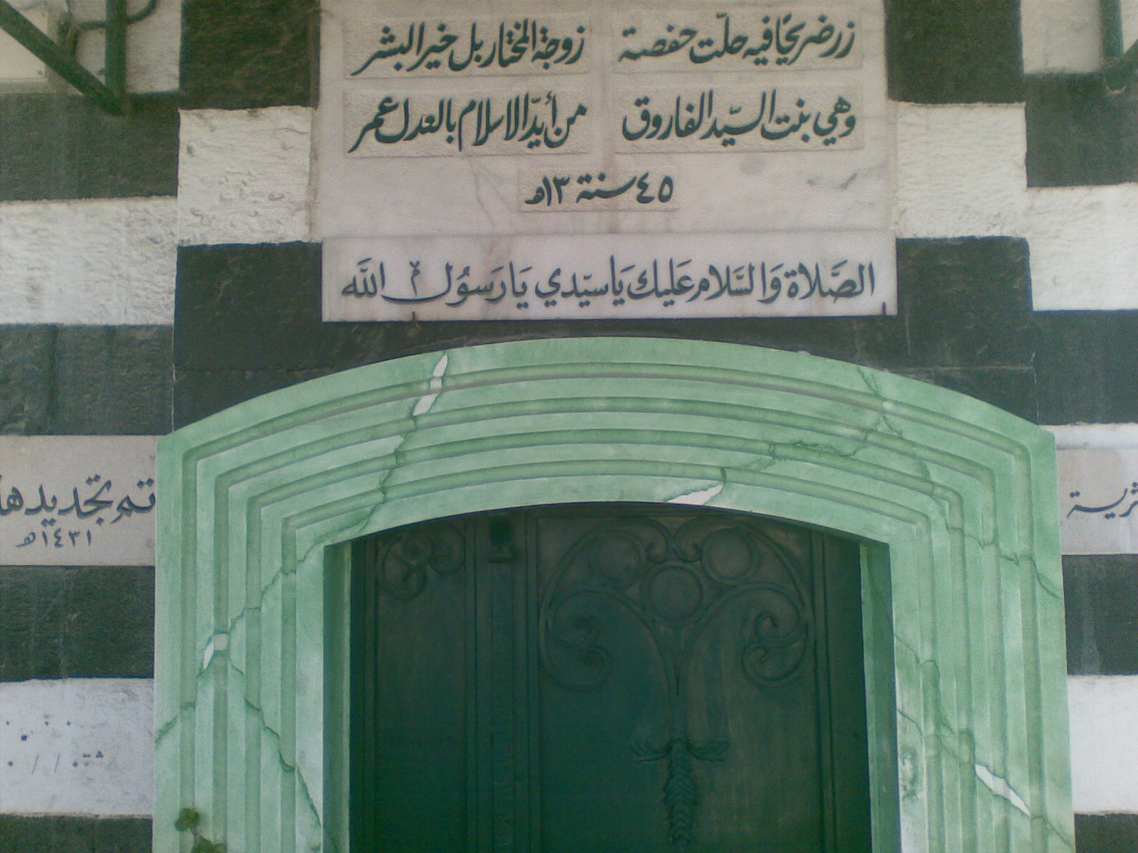 The entrance of the shrine of Hafsa, daughter of Umar Ibn Al-Khattab the second Khalifate, and one of wives of the prophet of Islam, Muhammad. Located in the graveyard of Bab Al-Saghir in the old city of Damascus, Syria.